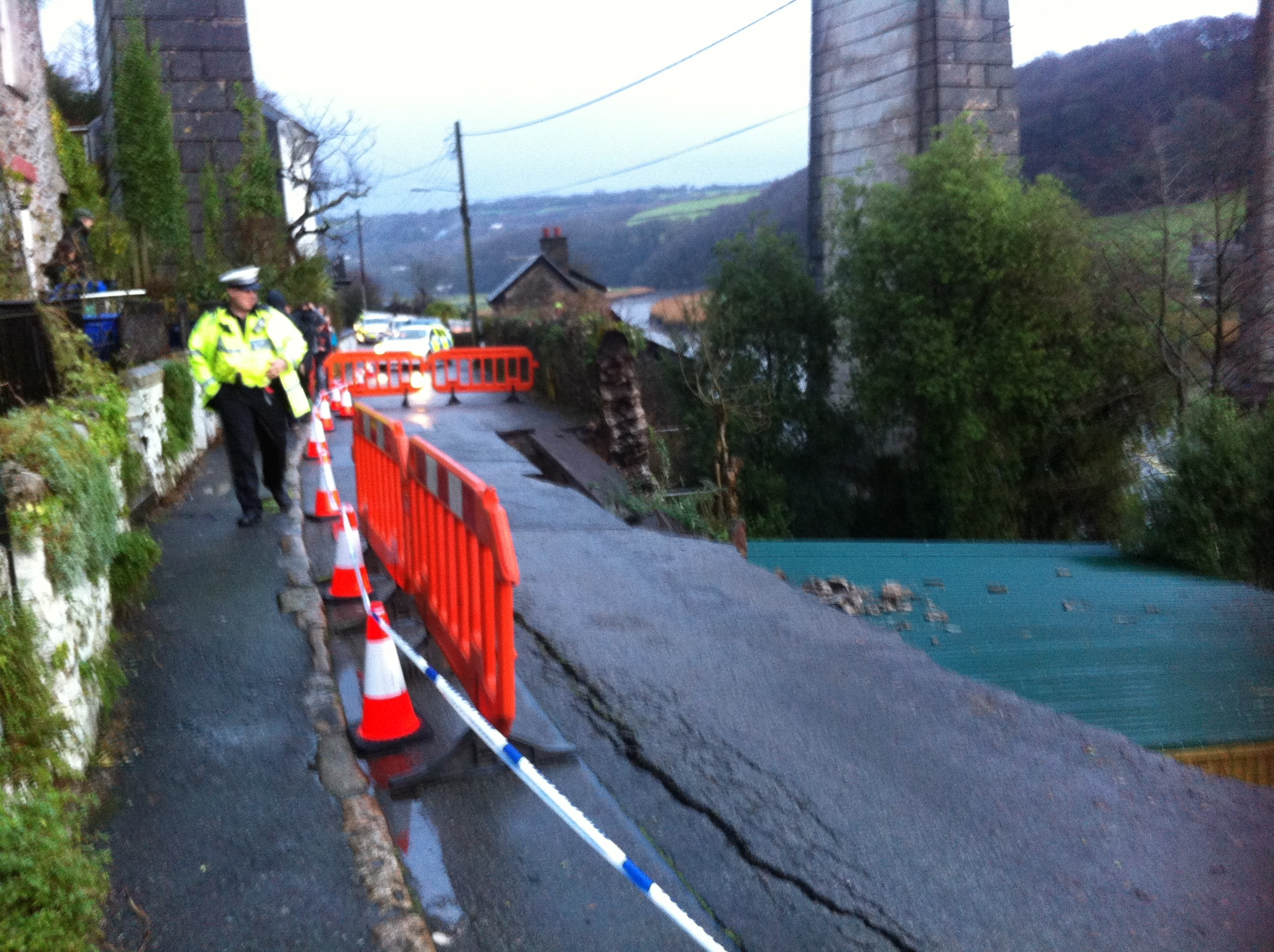 Calstock Landslide in the early stages of Christmas morning, with first responses on scene.